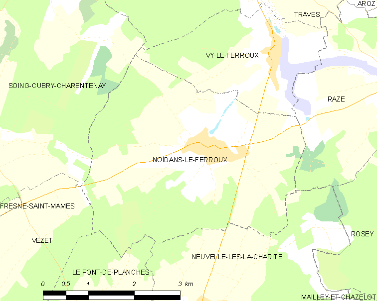 Map of French municipality